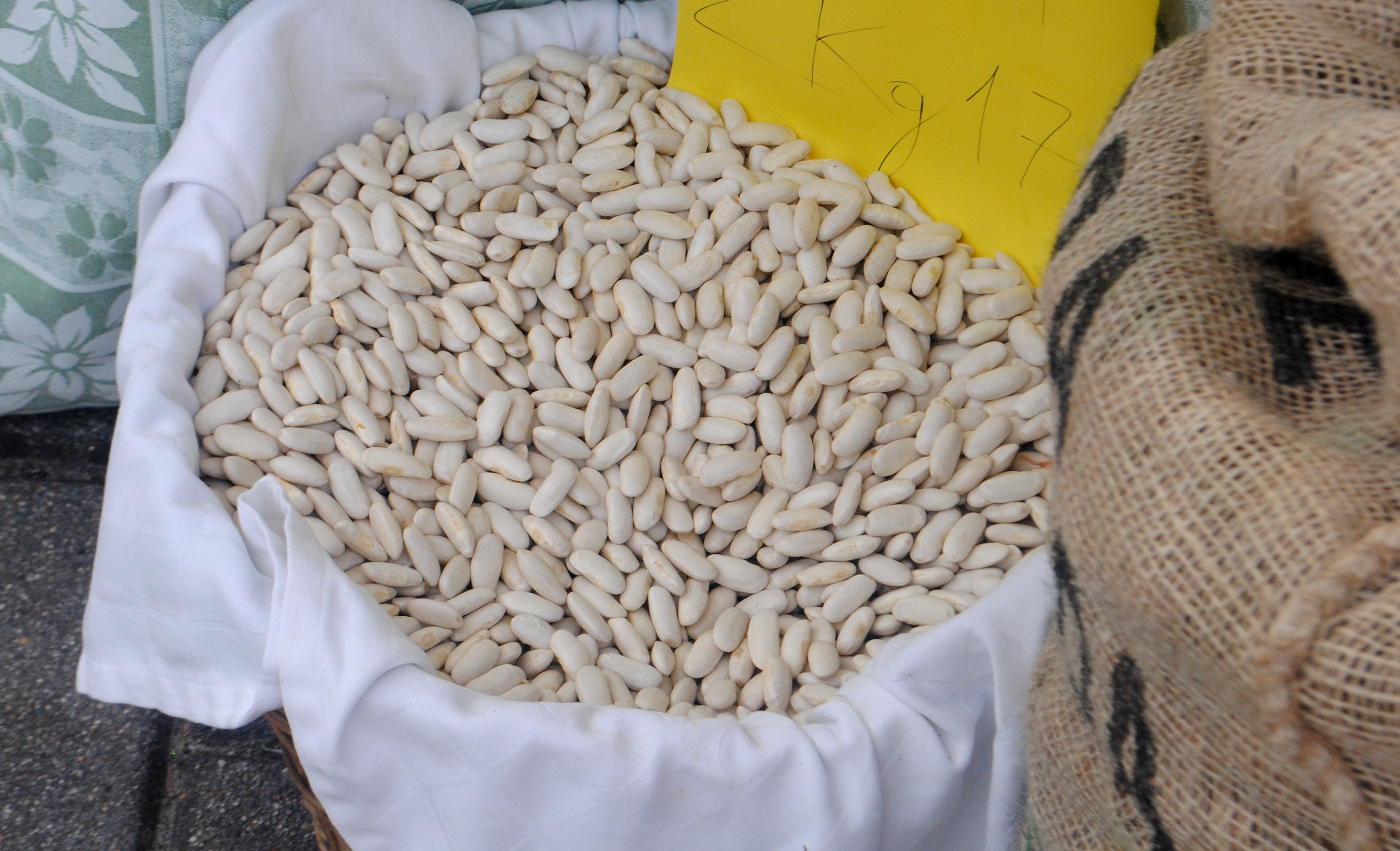 White beans (Fabes de la Granja) from Asturias, Spain.